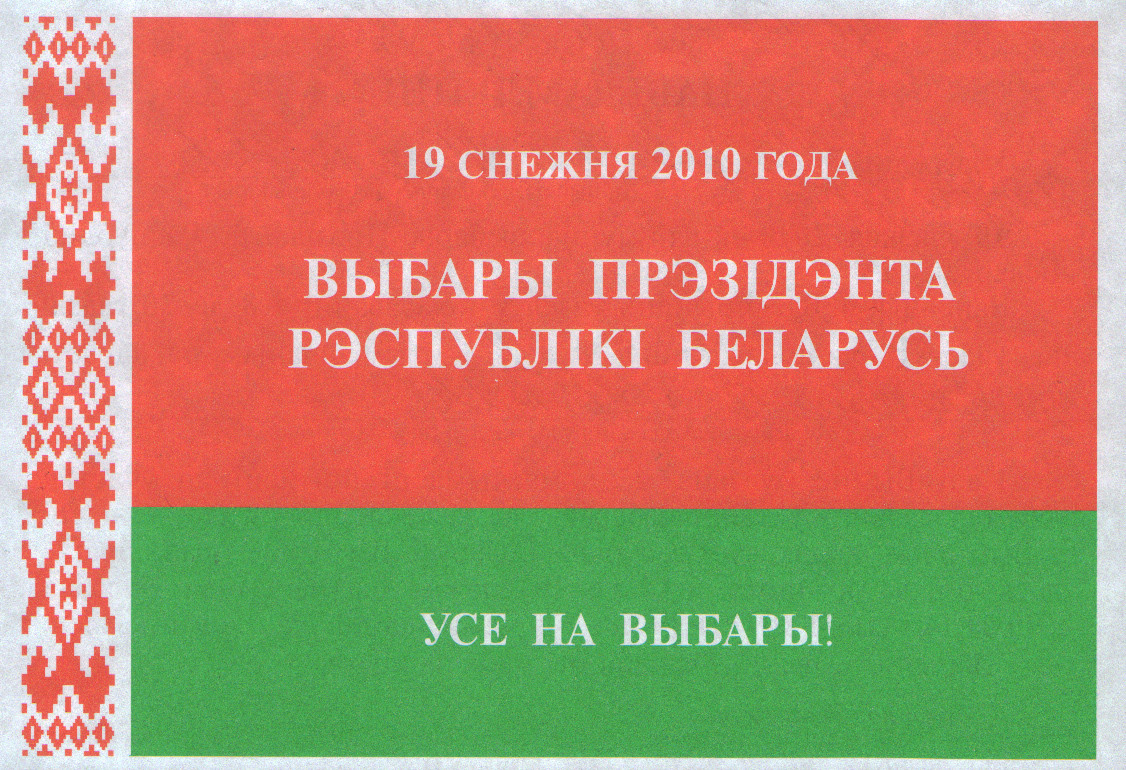 Invitation to presidental elections in Belarus, 2010. Translation: 19 December 2010 year // ELECTIONS OF THE PRESIDENT // OF THE REPUBLIC OF BELARUS // EVERYONE COME TO ELECTIONS!